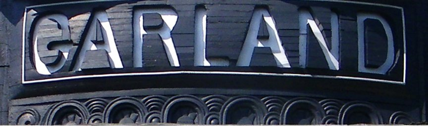 Garland brand label as on the Michigan Stove Company products